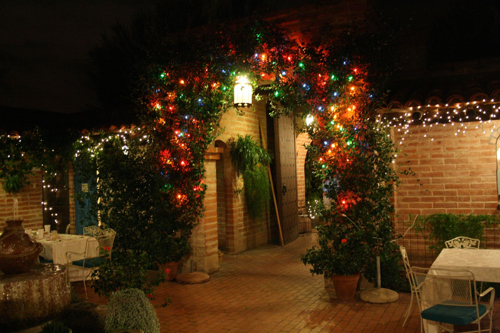 Christmas at the Tea Room, Tohono Chul Park